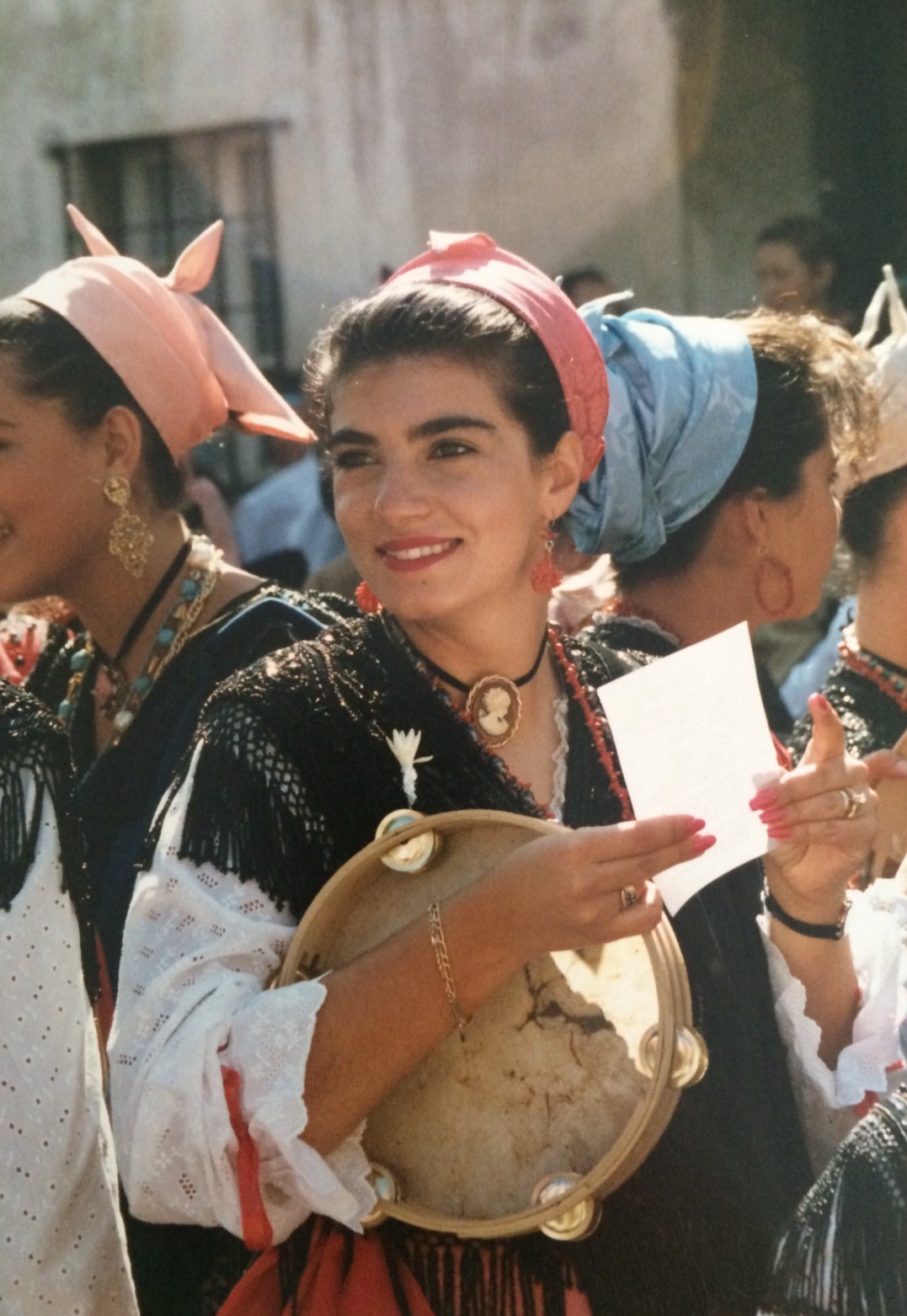 Traditional Asturian dress used for local festivals.